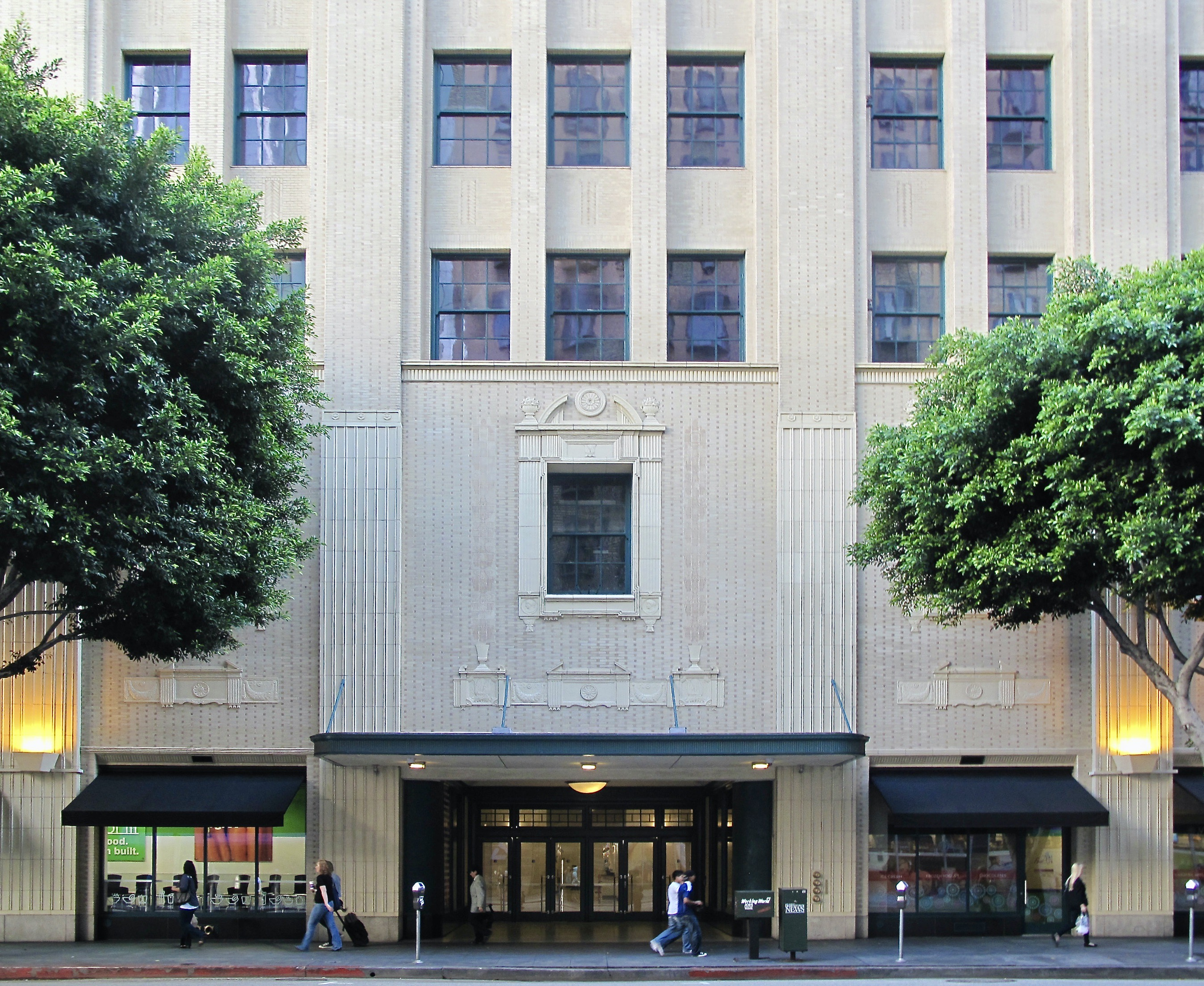 Boston Store-J.W. Robinson's, 600 W. 7th Street, in Downtown Los Angeles, California